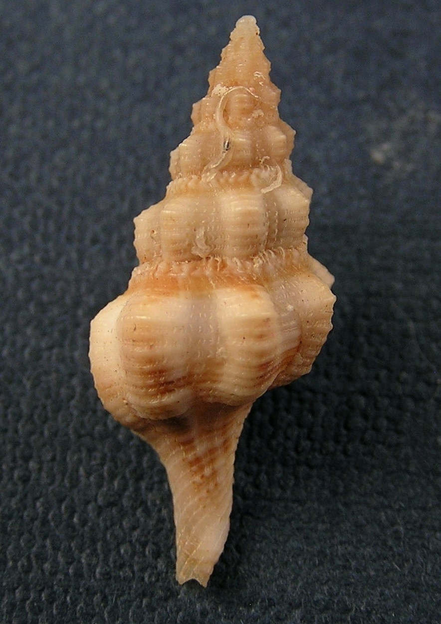 Fusolatirus suduiraudi Fraussen, 2003, a spindle snail from the family Fasciolariidae; Philippines